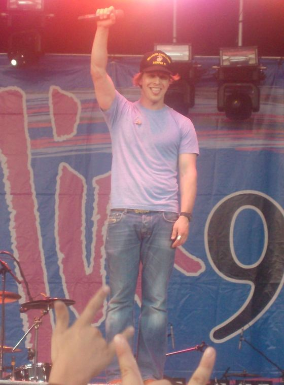 Gavin DeGraw performing in Kansas City